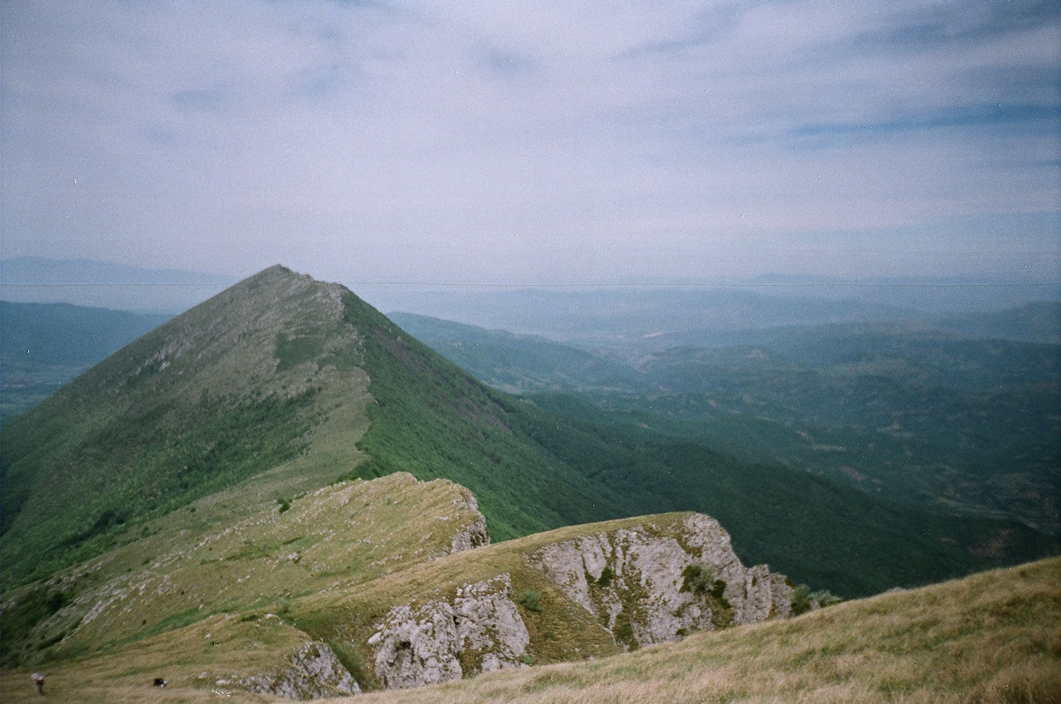 Suva Planina: Sokolov Kamen (1523 m) seen from the slopes of Trem (1810 m)